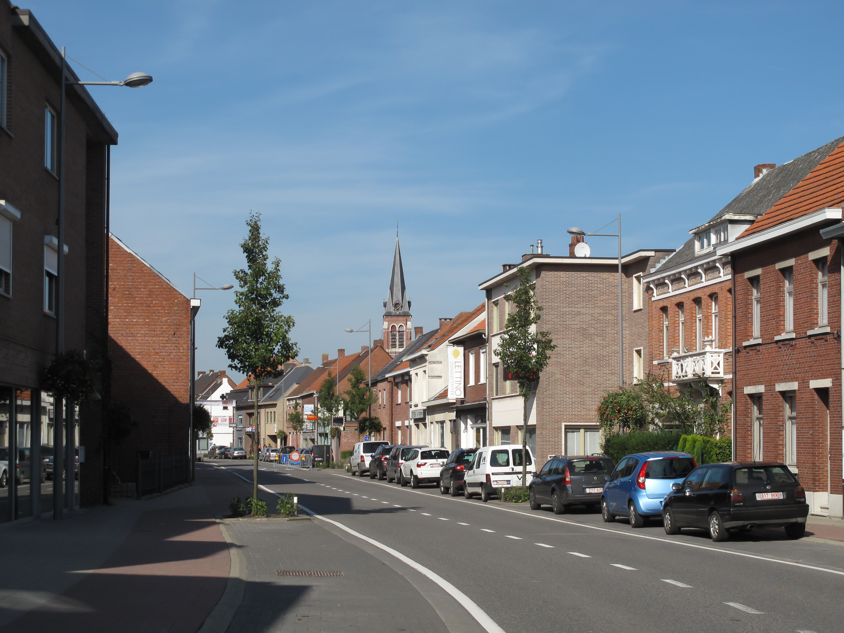 Merksplas, view to a street